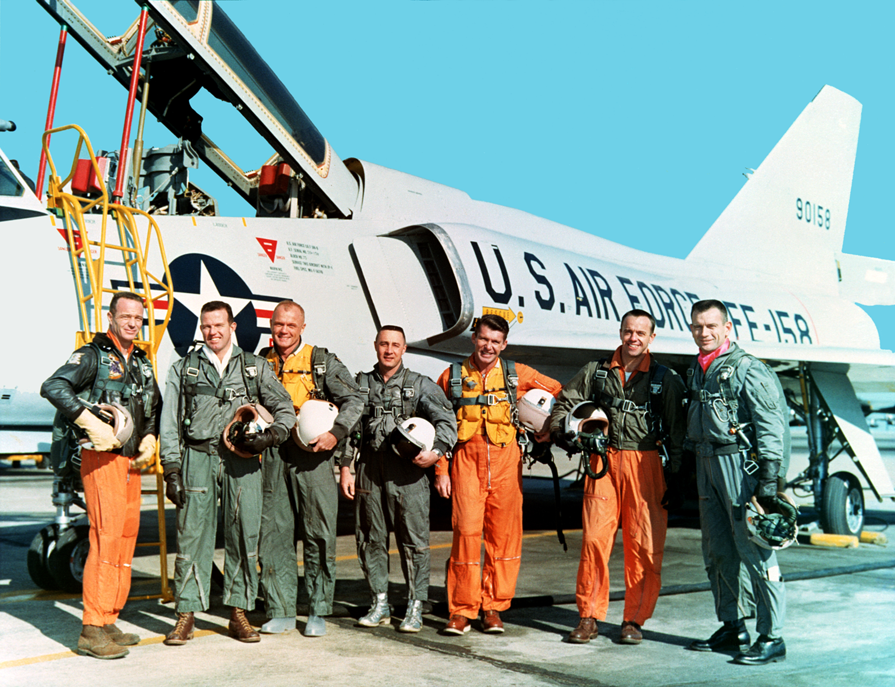 The Original Mercury Seven astronauts with a NASA Langley Research Center F-106B jet aircraft. From left to right: M. Scott Carpenter, L. Gordon Cooper, Jr., John H. Glenn, Jr., Virgil I. (Gus) Grissom, Walter M. (Wally) Schirra, Jr., Alan B. Shepard, Jr., Donald K. (Deke) Slayton.